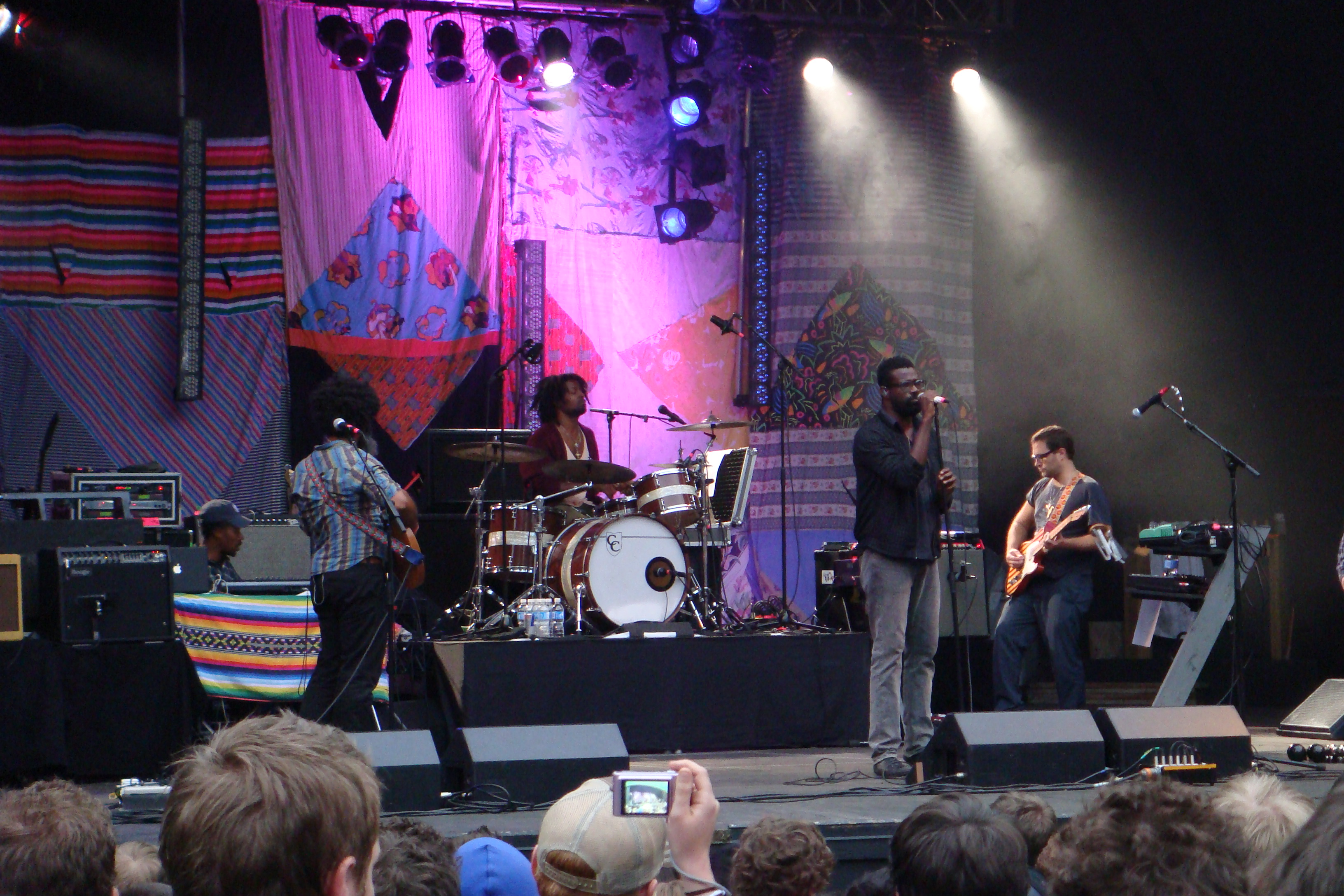 TV on the Radio at the Malkin Bowl in Stanley Park, British Columbia, Canada